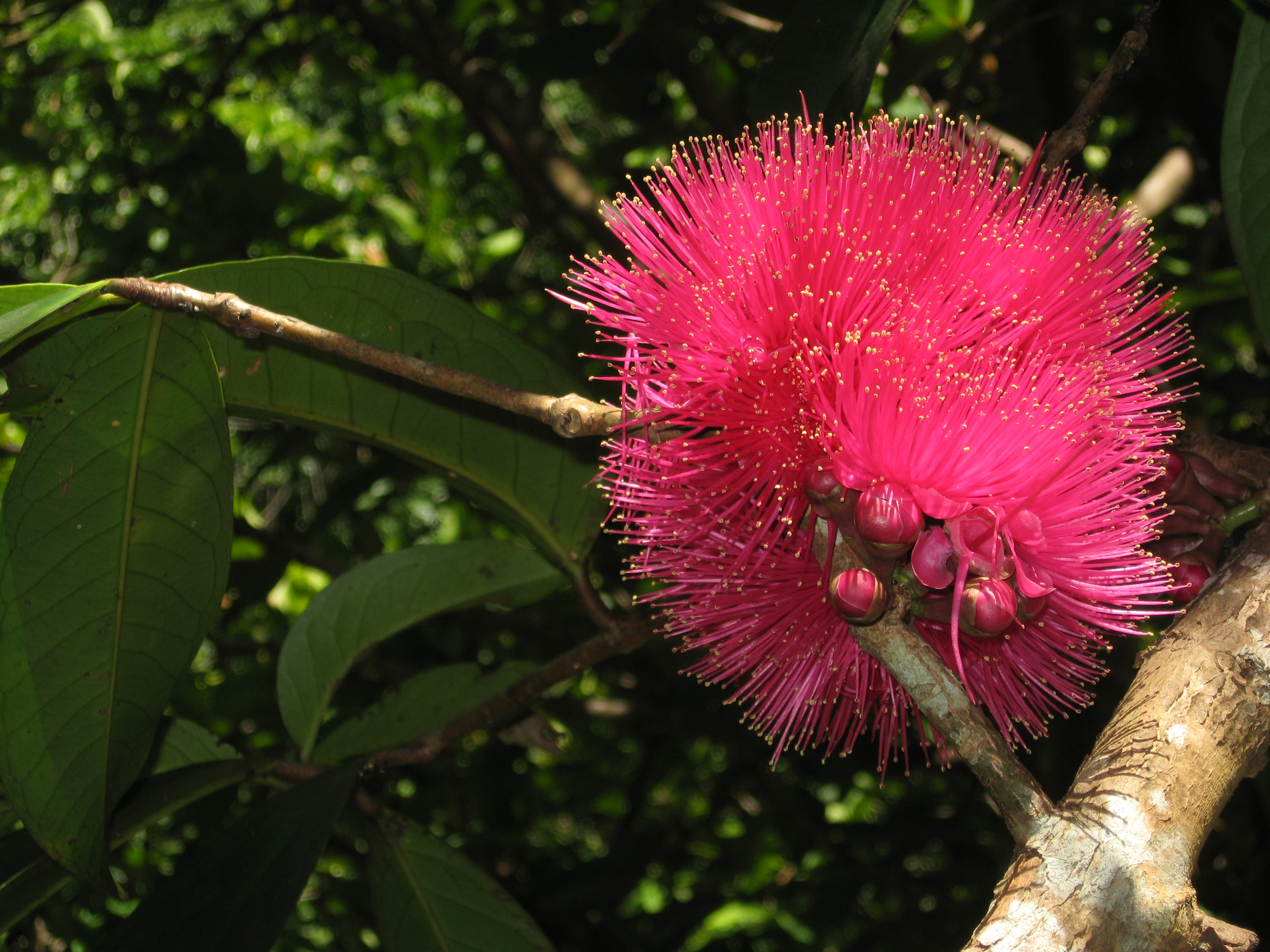 A Malay apple (Syzygium malaccense) flower in Mangunharjo, Yogyakarta